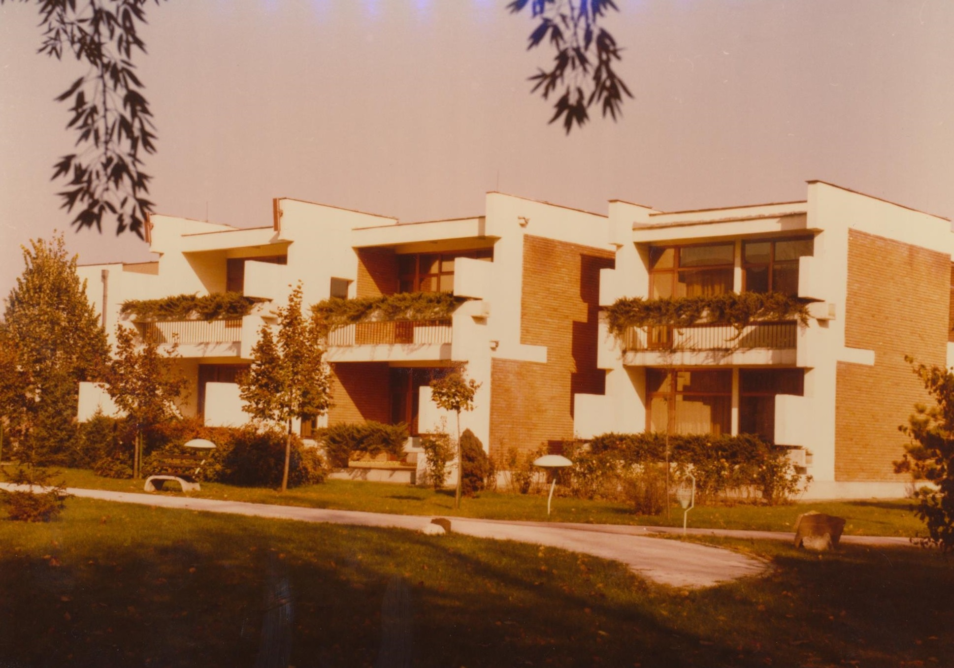 Nursery Prvomajski cvet in Pirot